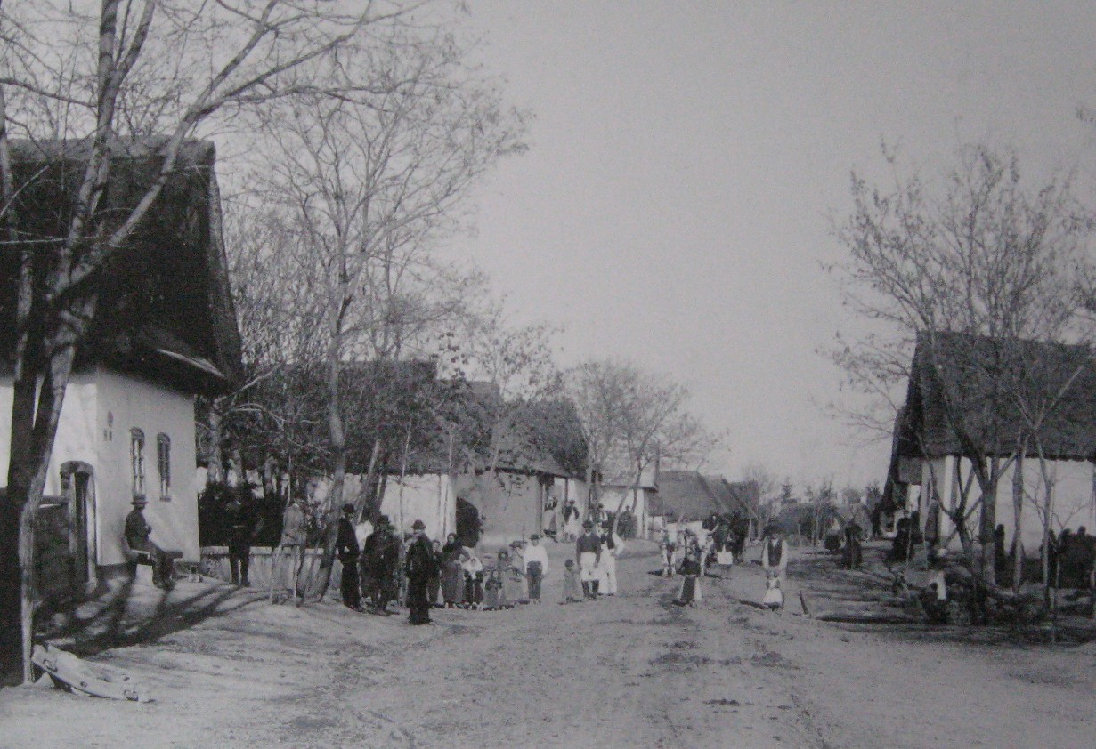 Village Egyháznagyszeg (Kostolný Sek) /Hungary, now in Slovakia/ in the 19th century